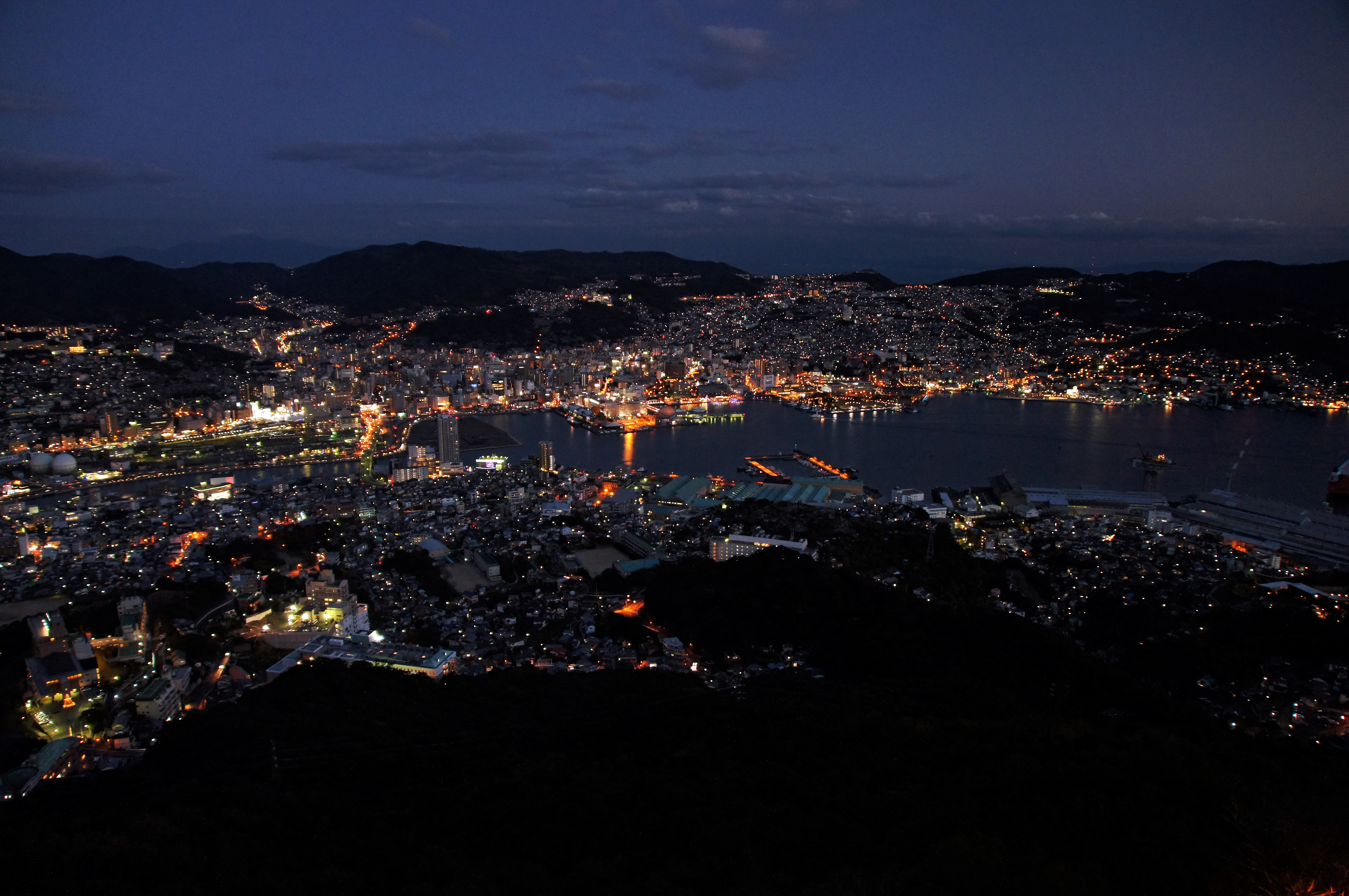 A Nagasaki City view from Mount Inasa, Nagasaki, Nagasaki prefecture, Japan